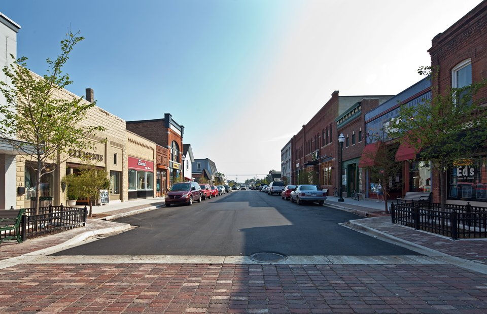 Downtown Lake Orion, Michigan